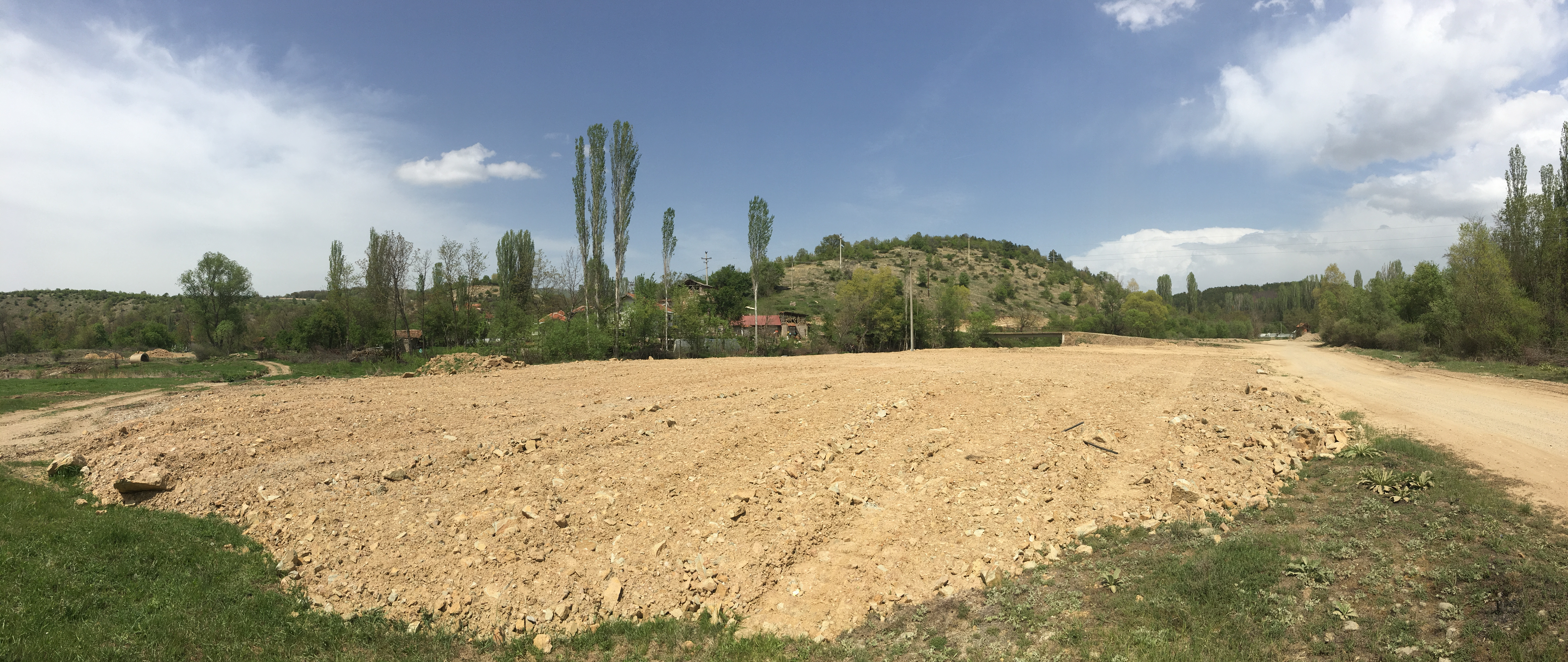 A panoramic view of the village of T'lminci